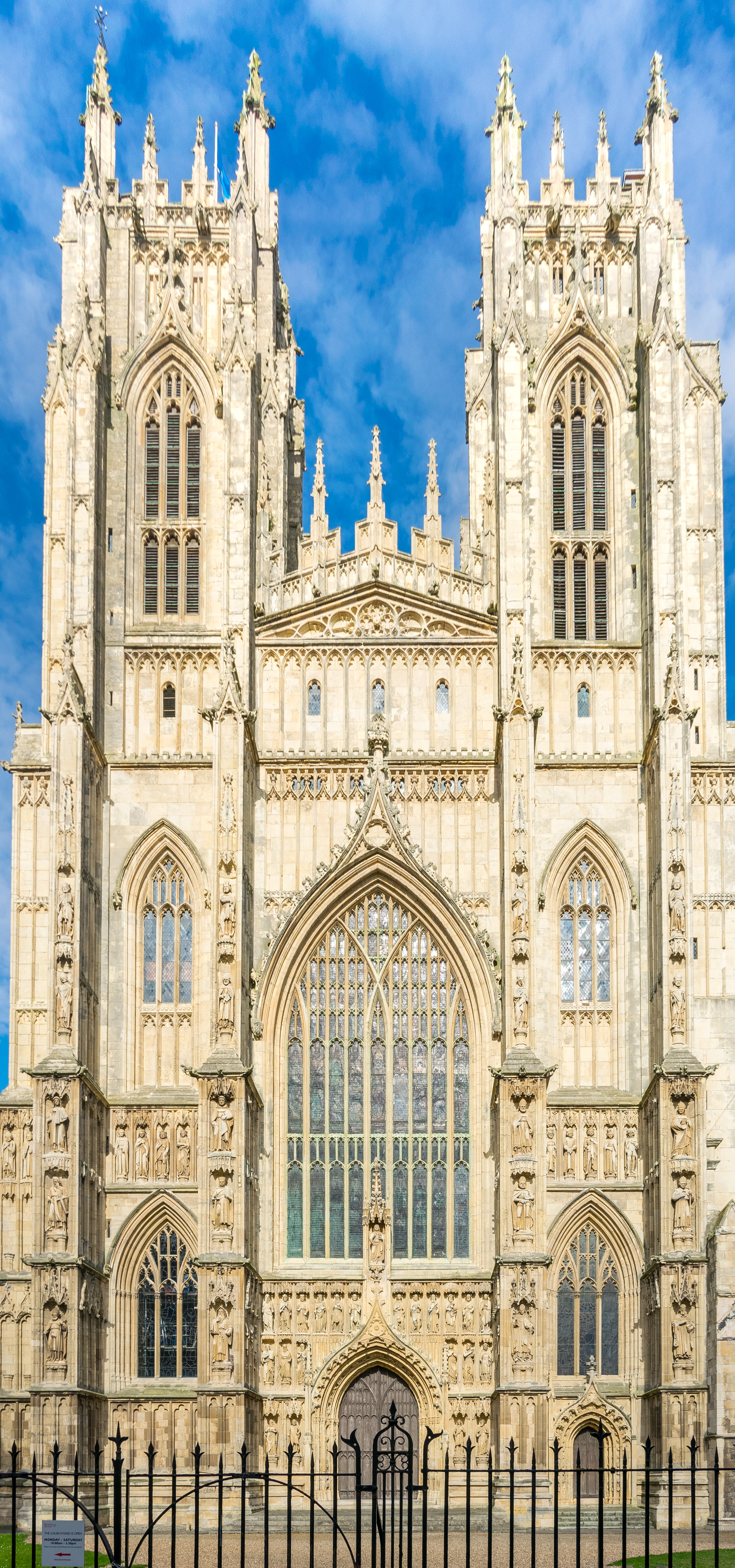 The massive West Front at Beverley Minster, Beverley, East Riding of Yorkshire, England.